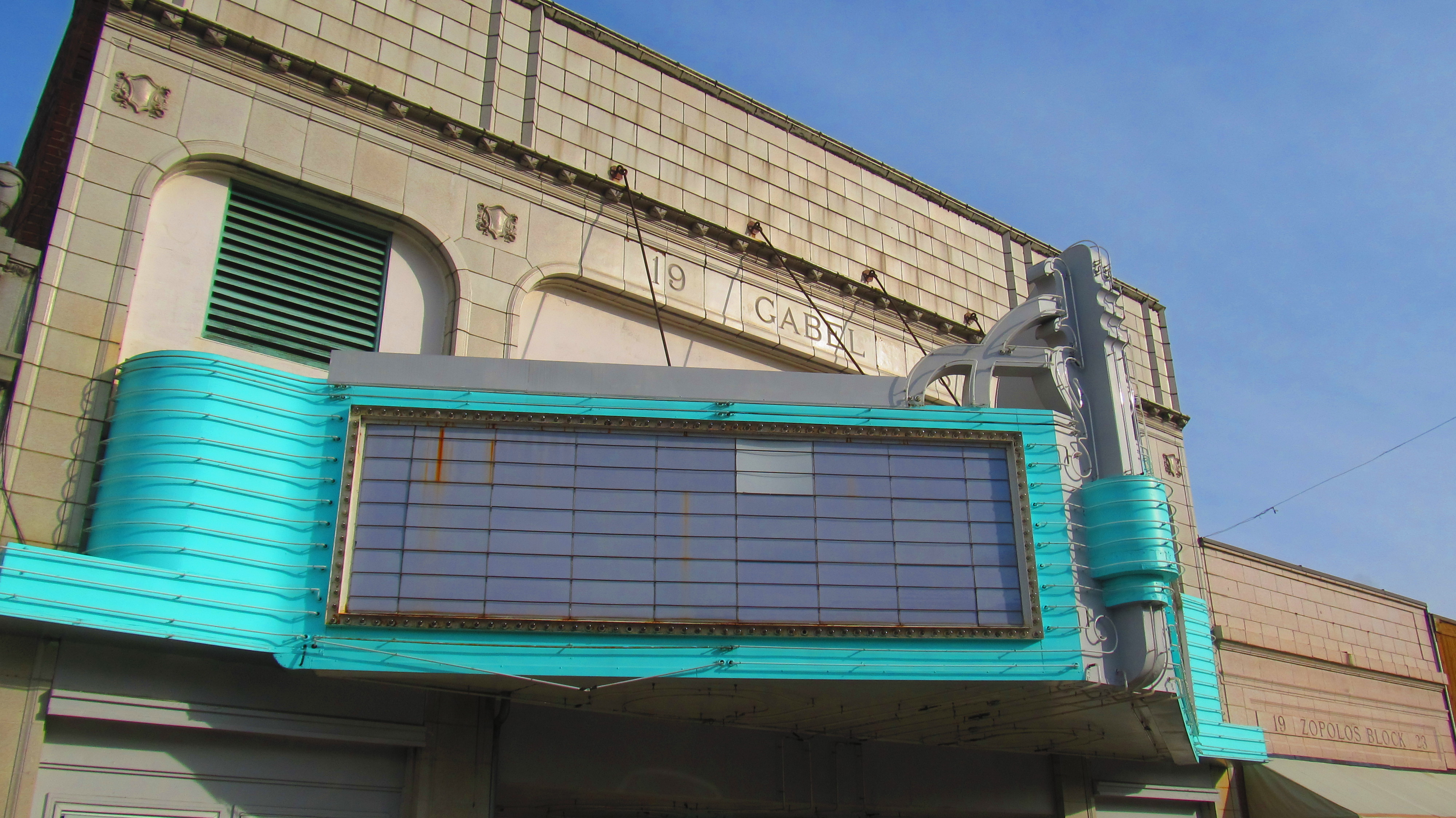 Chehalis Theater original Art Deco signage and lighting.